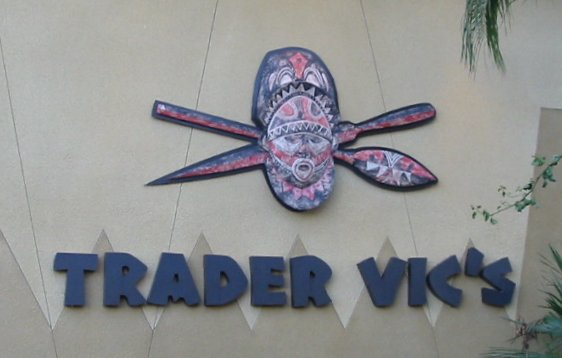 Photograph of the Trader Vic's logo outside the restaurant in Scottsdale, Arizona